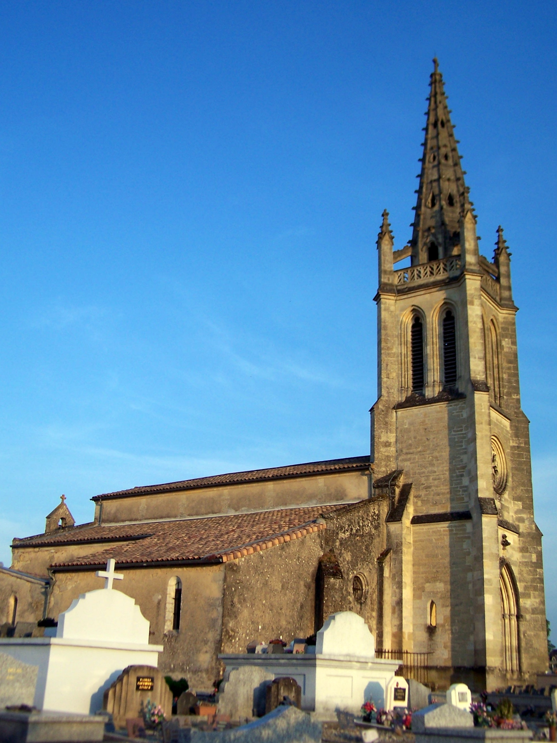 Church of Saint-Pierre-de-Mons (Gironde, France)